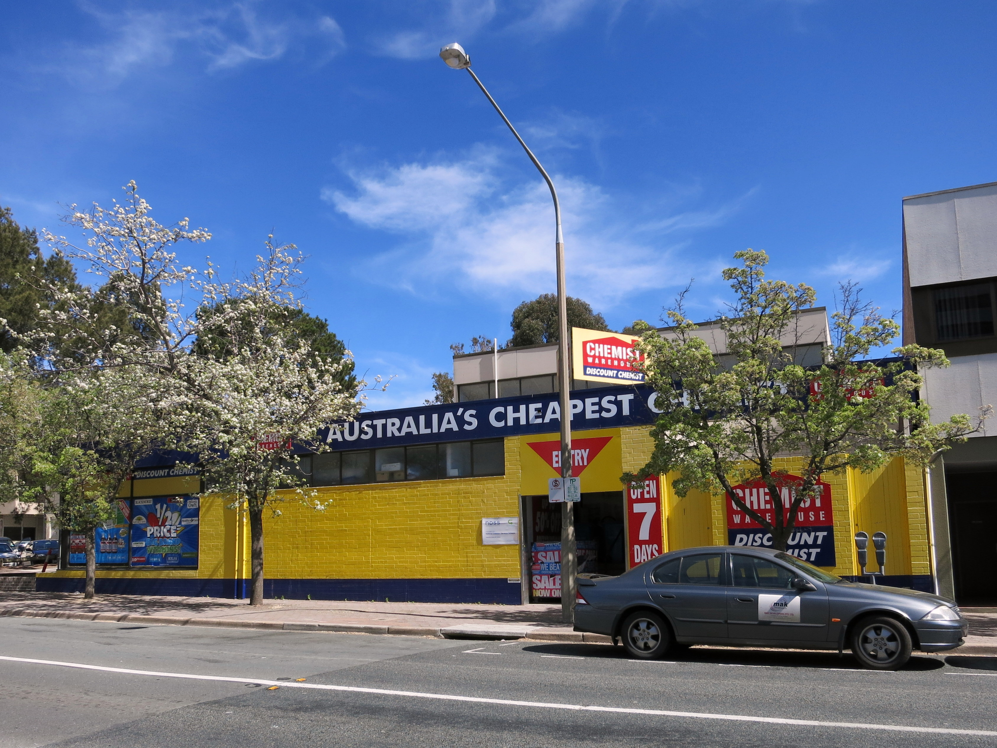 The "Chemist Warehouse" store on Corinna Street Woden in September 2013